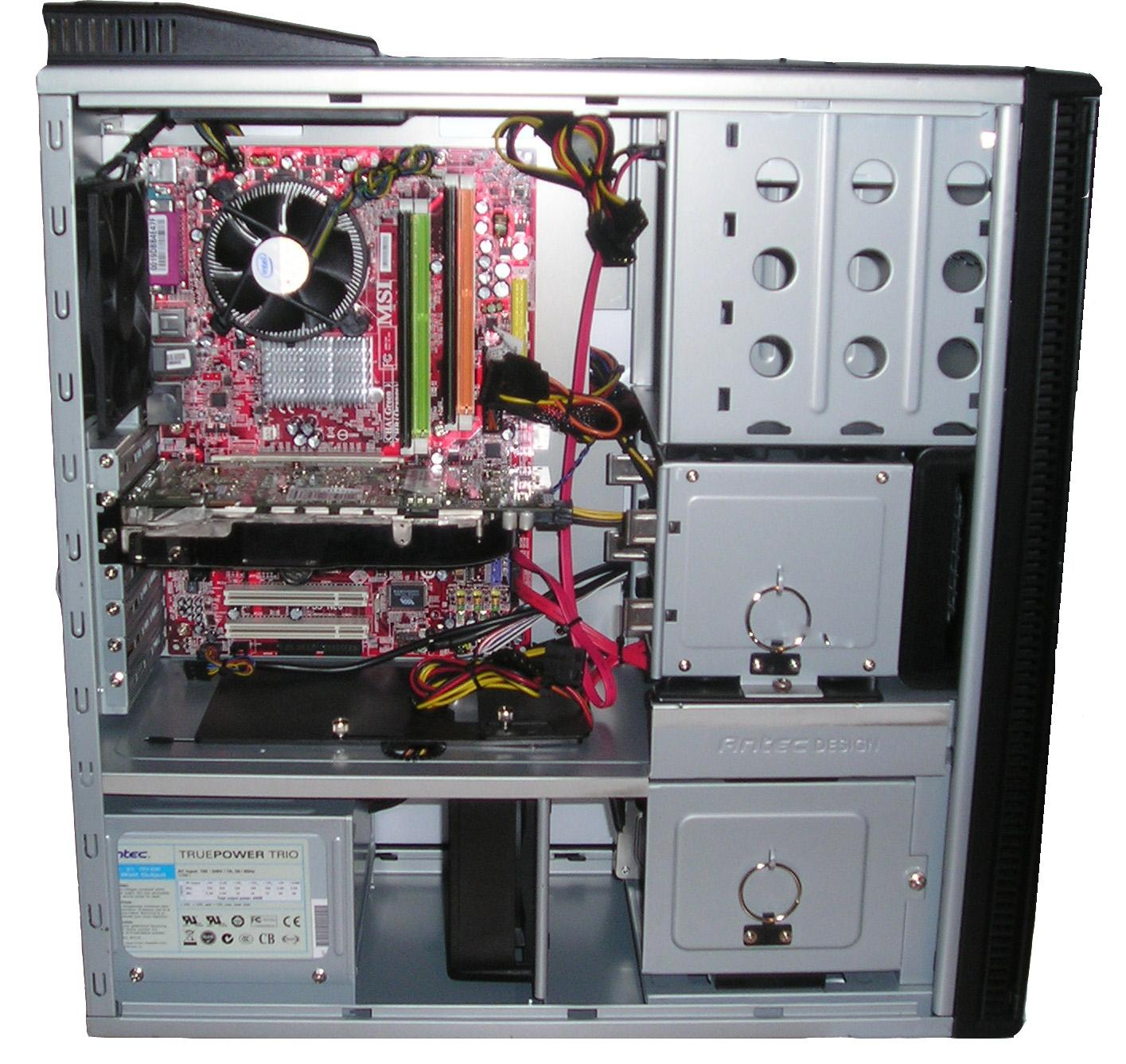 Photo of computer from inside. The computer is: Antec P180b MSI S775 INTEL CORE 2 E6750 PALIT GF8800 GTS CORSAIR DDR2 2X1GB SAMSUNG 18X DVD+/-RW ANTEC PSU TRUE POWER TRIO 430W